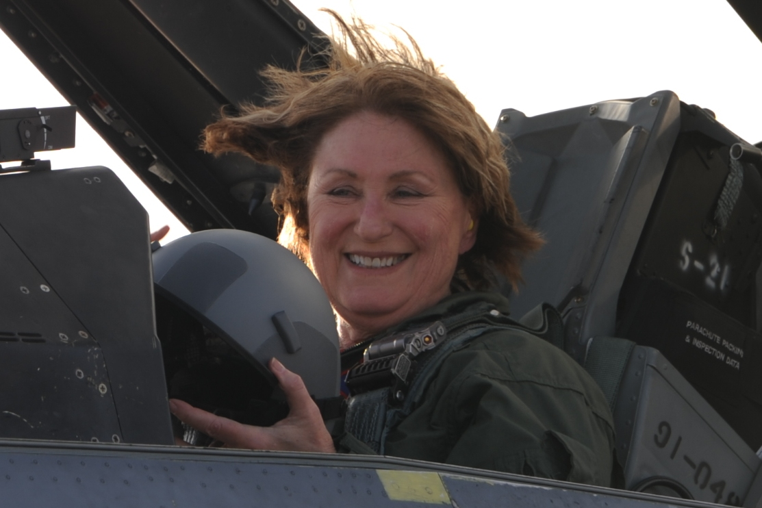 Ann Weaver Hart, president of the University of Arizona, in a F-16D Fighting Falcon at Davis-Monthan Air Force Base, Ariz., March 5, 2016. (U.S. Air Force photo by Airman Nathan H. Barbour/ Released)